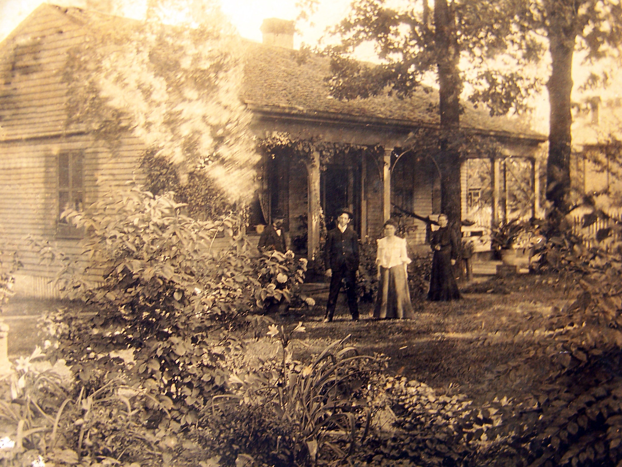 The Oaks House in Jackson, Mississippi at an unknown date. The Oaks House is on the National Register of Historic Places.